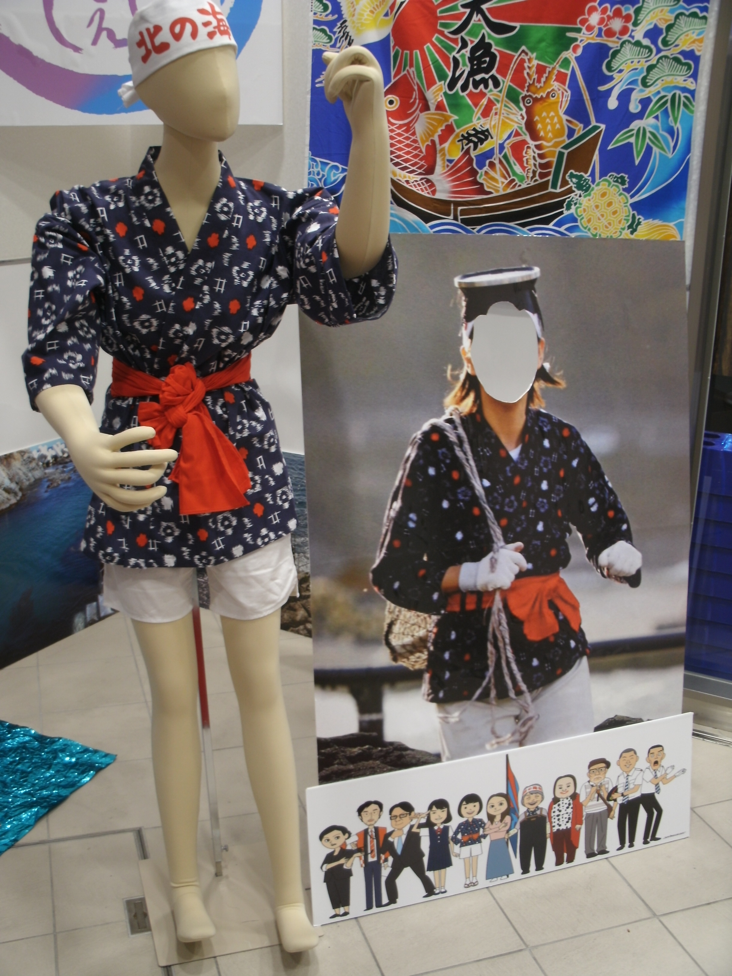 Amachan at Sennichimae